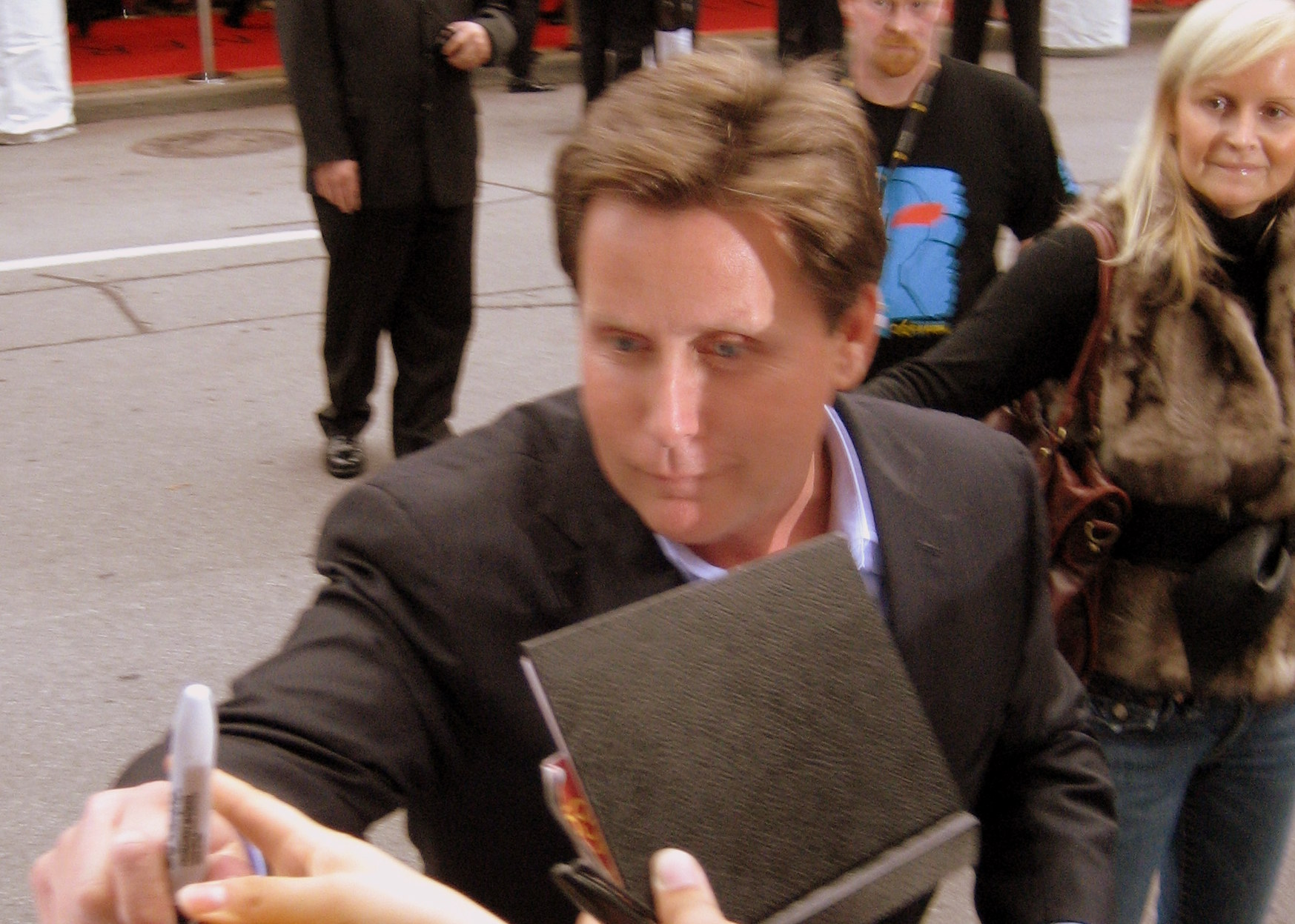 Emilio Estevez at the premiere of Bobby, Toronto Film Festival 2006